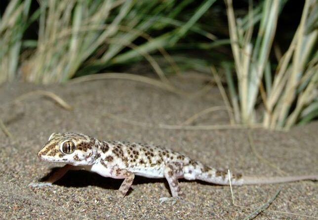 Bunopus tuberculatus at Bampour Sands (Iranshahr, Sistan & Balouchestan, Iran)